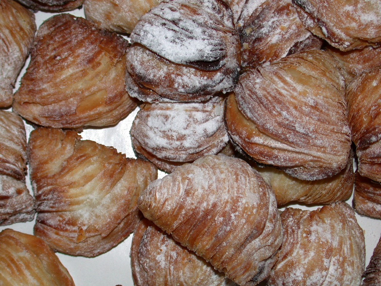 Sfogliatelle, a neapolitan pastry. Naples, Italy.